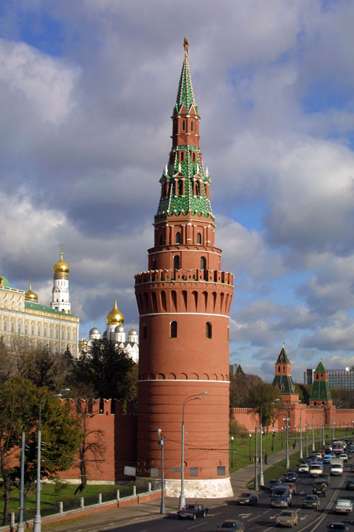 Moscow, the Kremlin. Vodovzvodnaya Tower.